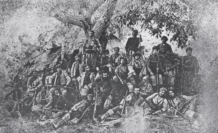 Cheta of IMARO member Dobri Daskalov